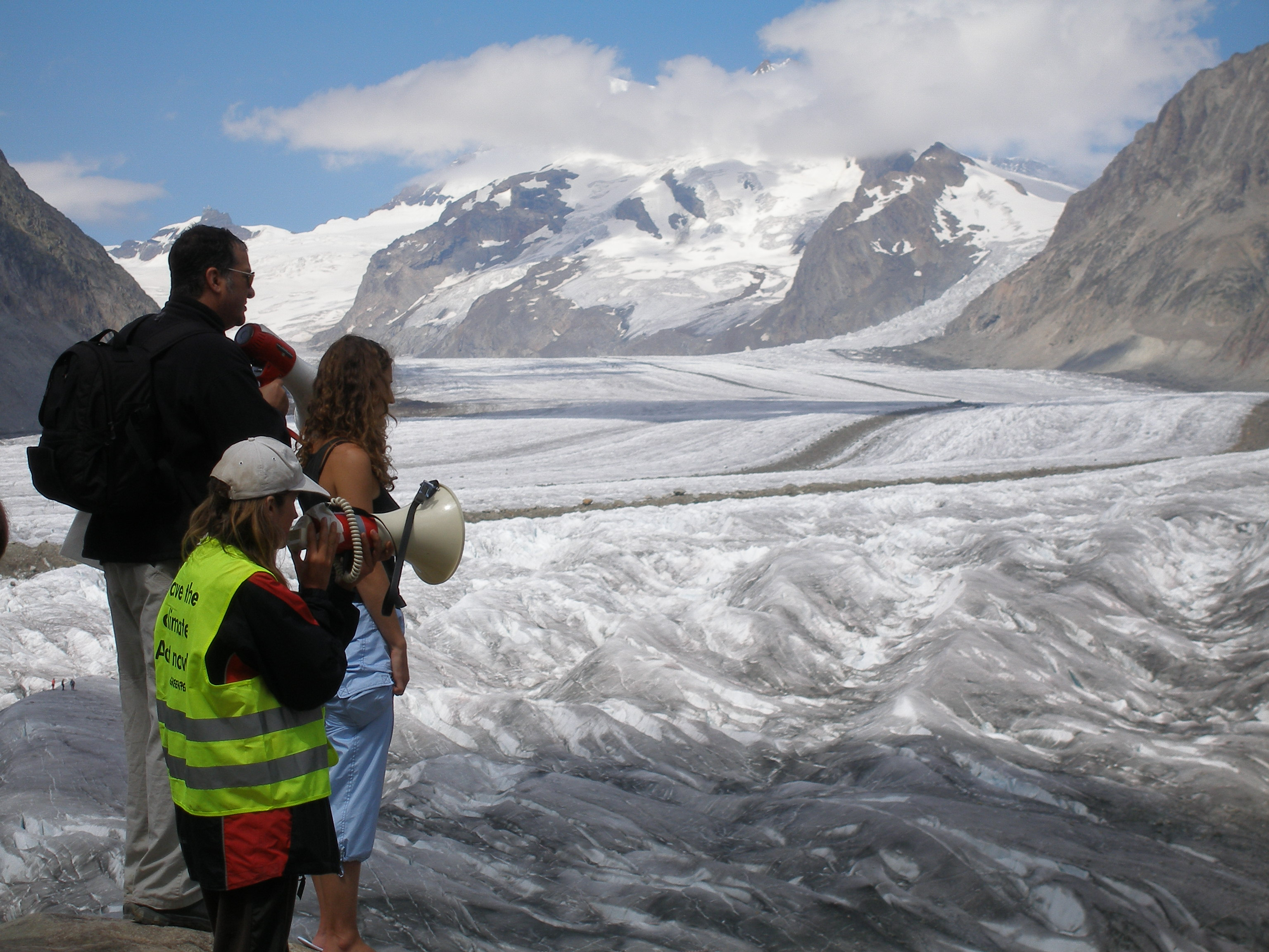 a photo taken by Robert Grassi at the Aletsch Glacier in Switzerland 2007.08.18 of Spencer Tunick preparing an installation on the ice with Greenpeace